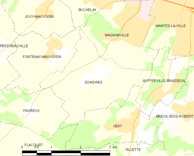 Map of French municipality Soindres